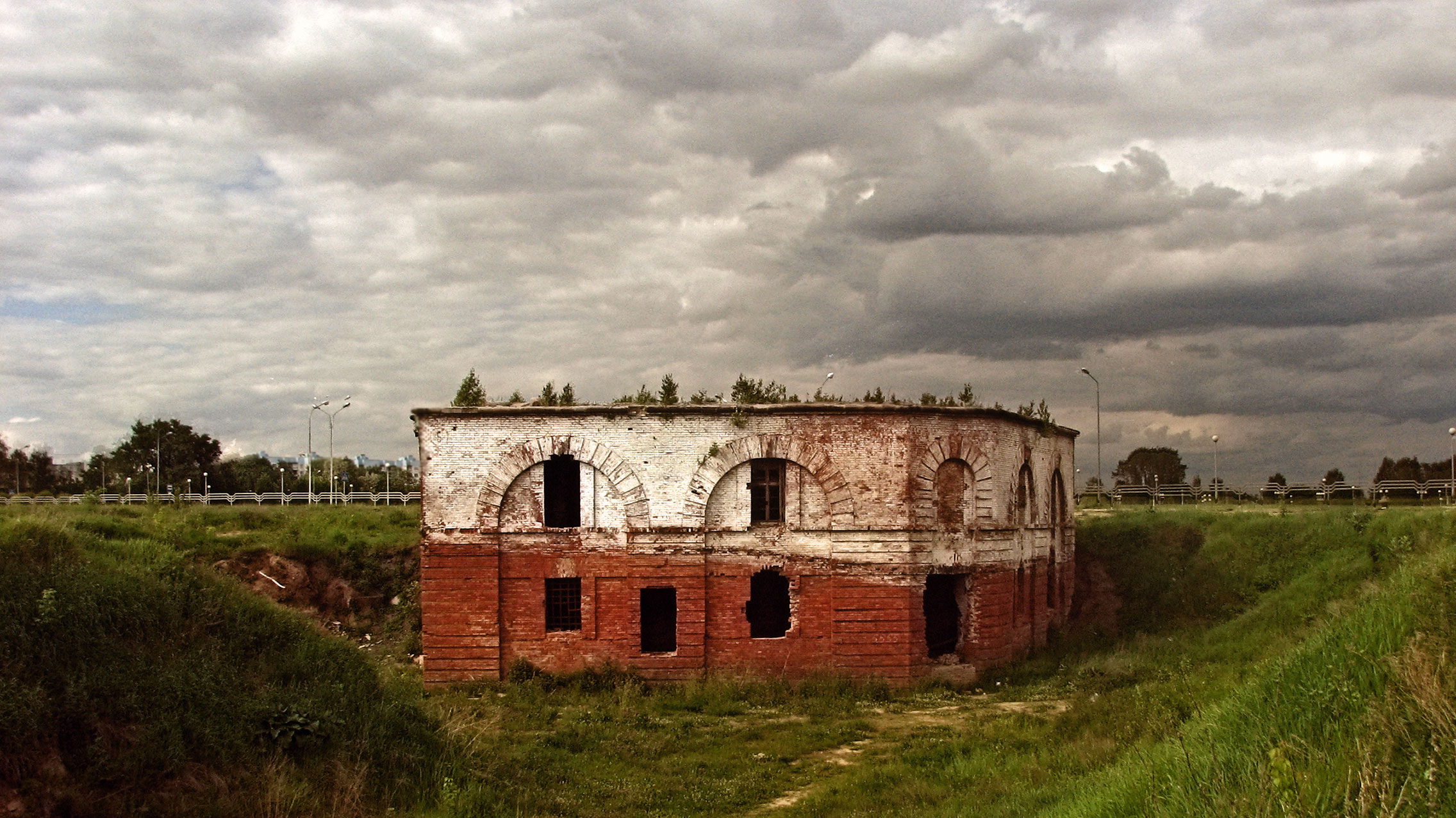 Беларуская (тарашкевіца): Крэпасць. г. Бабруйск This is a photo of Belarusian heritage monument. Reference number: 512Г000059 ( WLM)